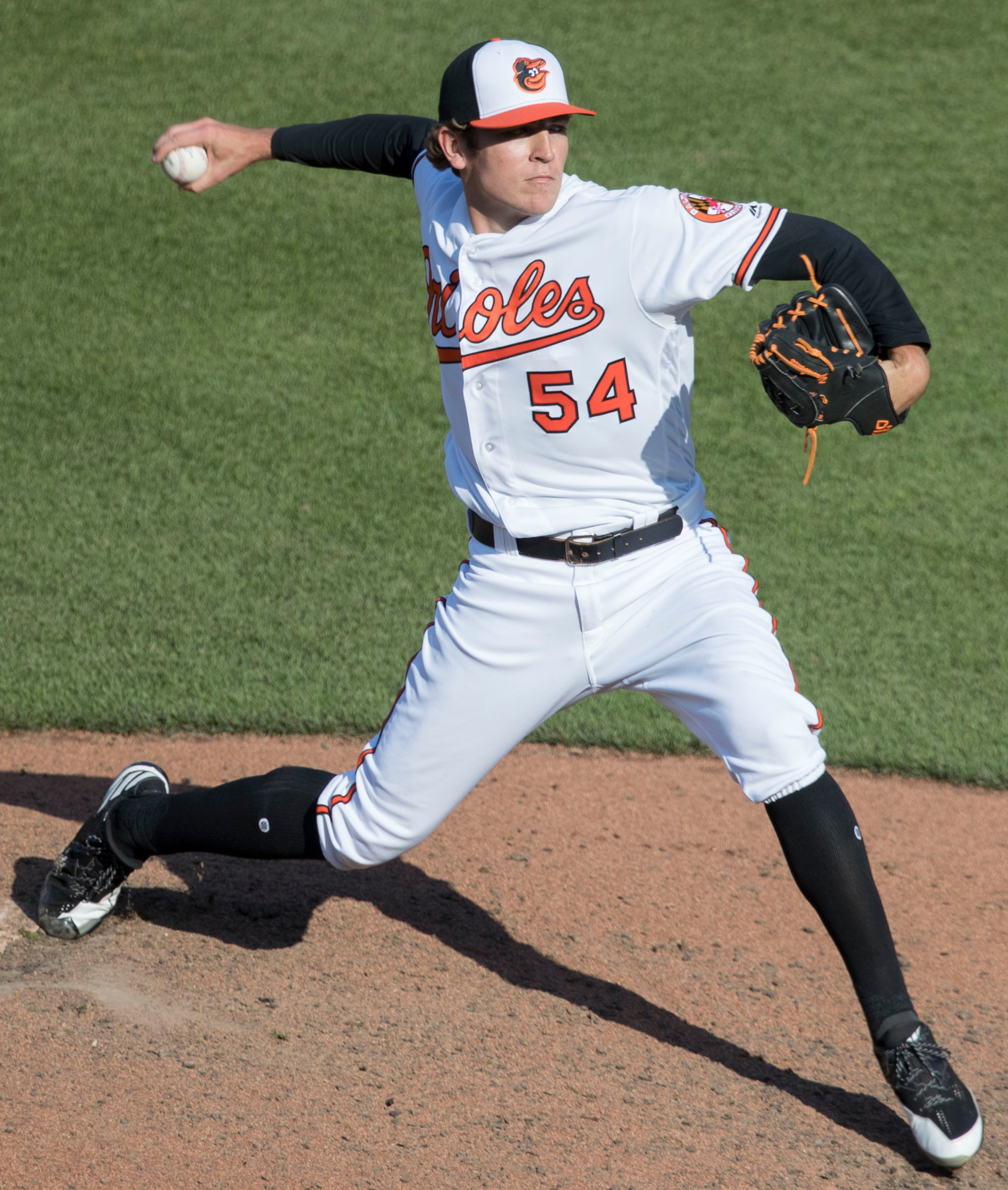 Orioles pitcher Jimmy Yacabonis on mound against Toronto Blue Jays at Camden Yards on September 3, 2017. His first major league win.